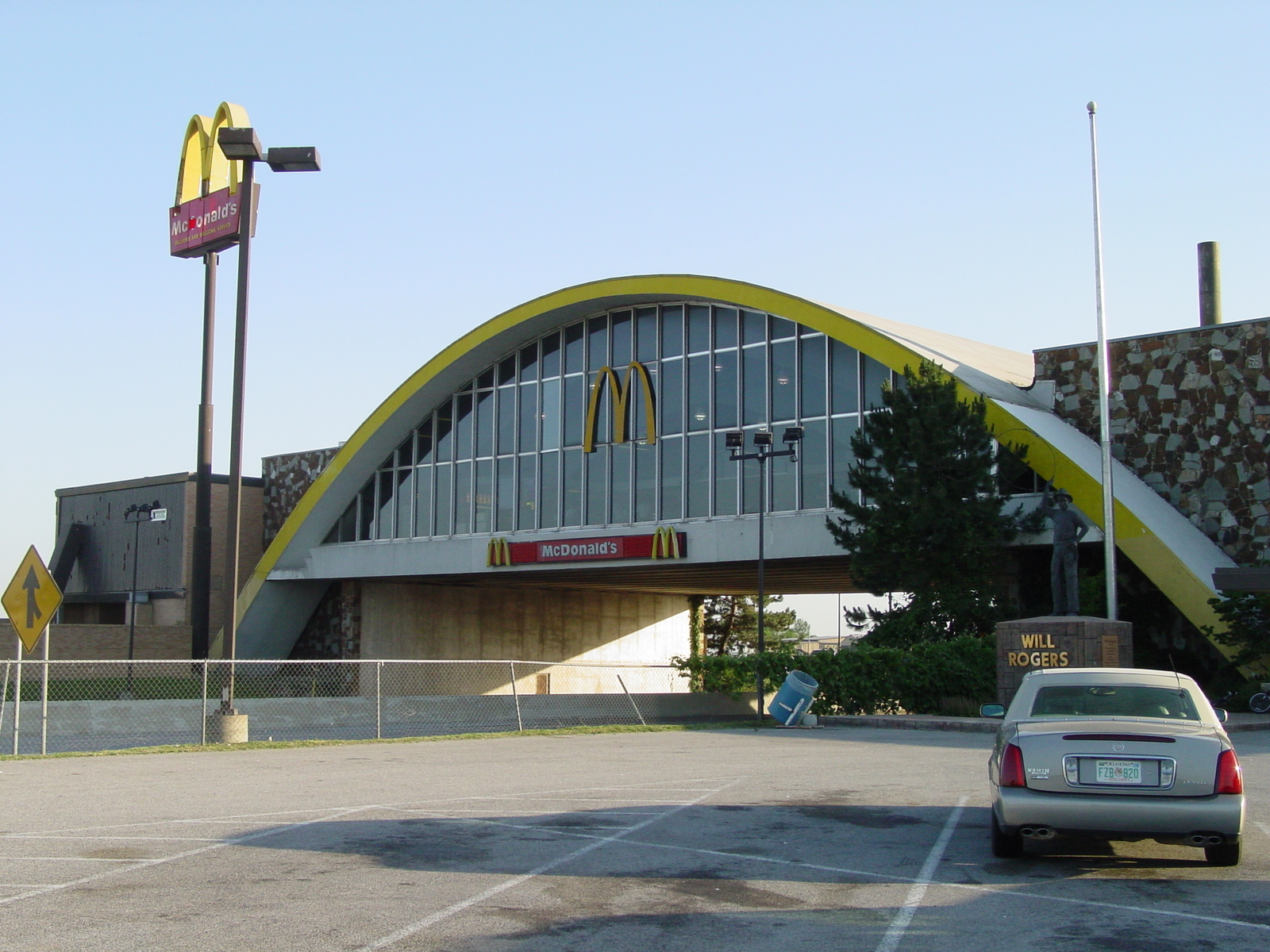 View of the McDonalds restaurant over the Will Rodgers Turnpike from the eastbound parking lot of the Vinita service plaza in Vinita, Oklahoma.